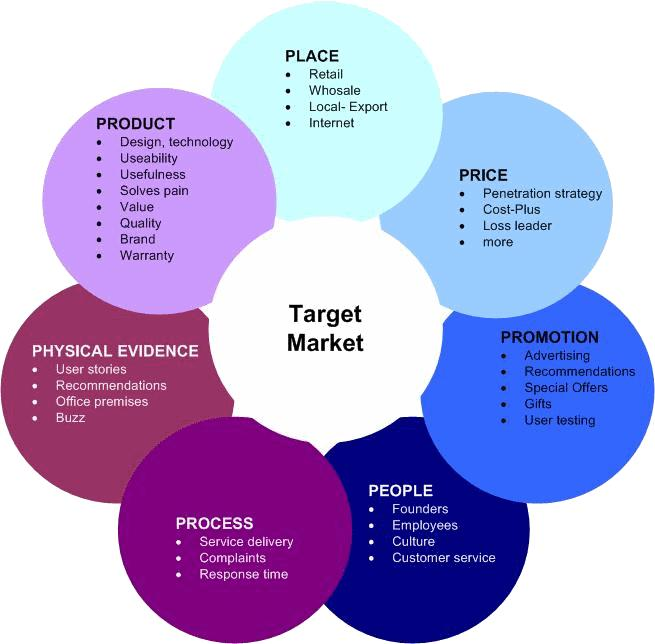 the 7ps for digital mkt